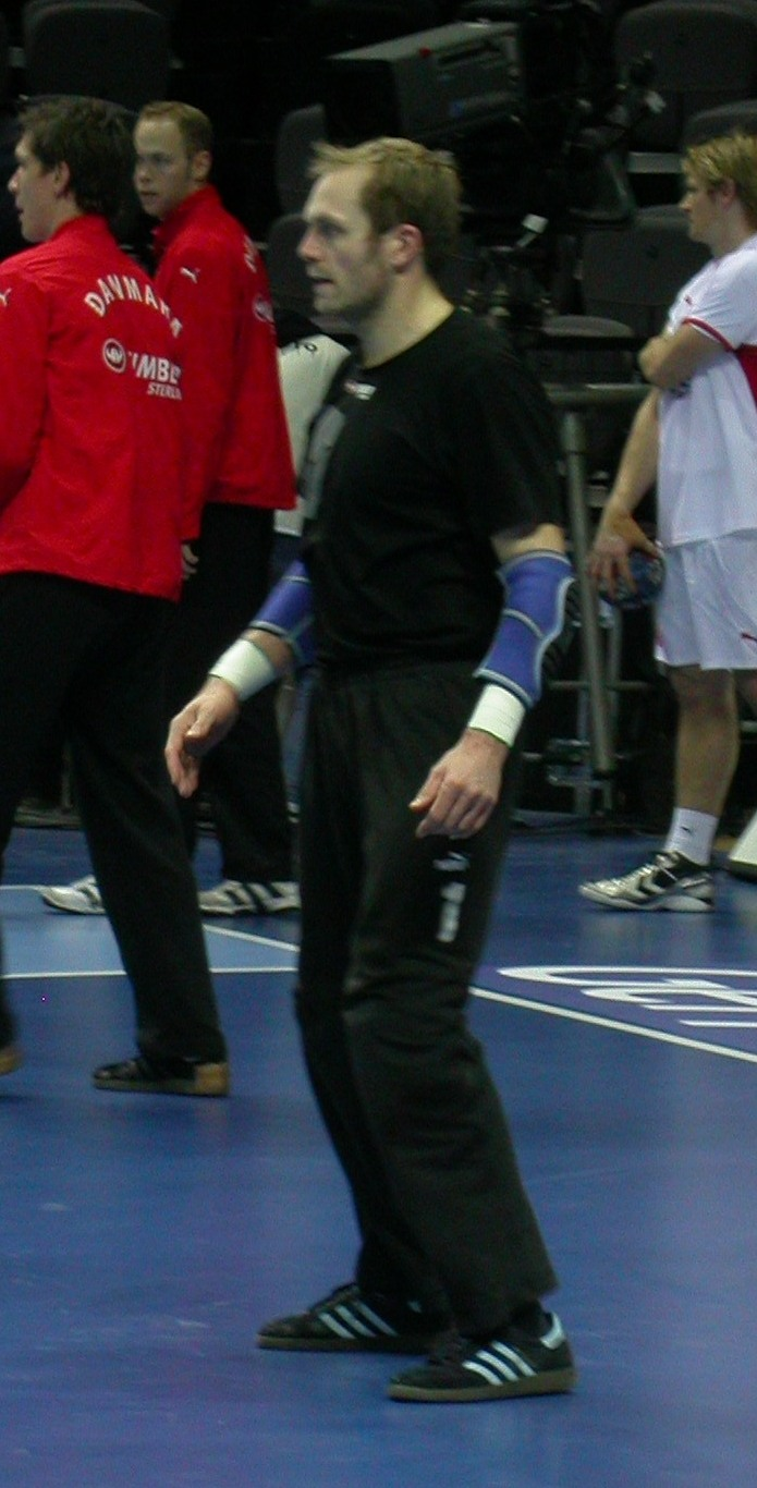 Hvidt